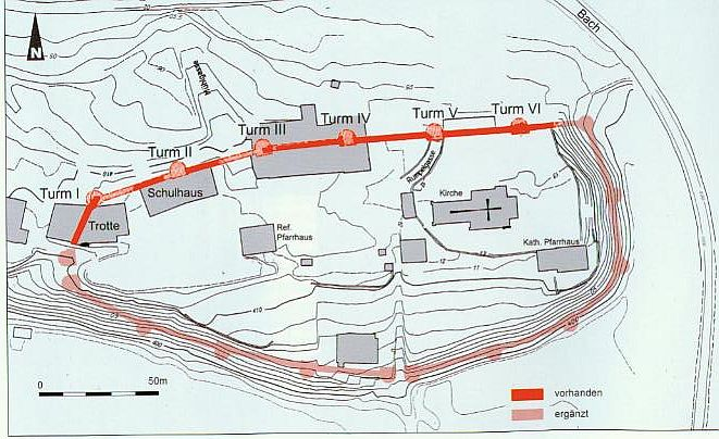 Plan castel Pfyn/Ad Fines (CH)